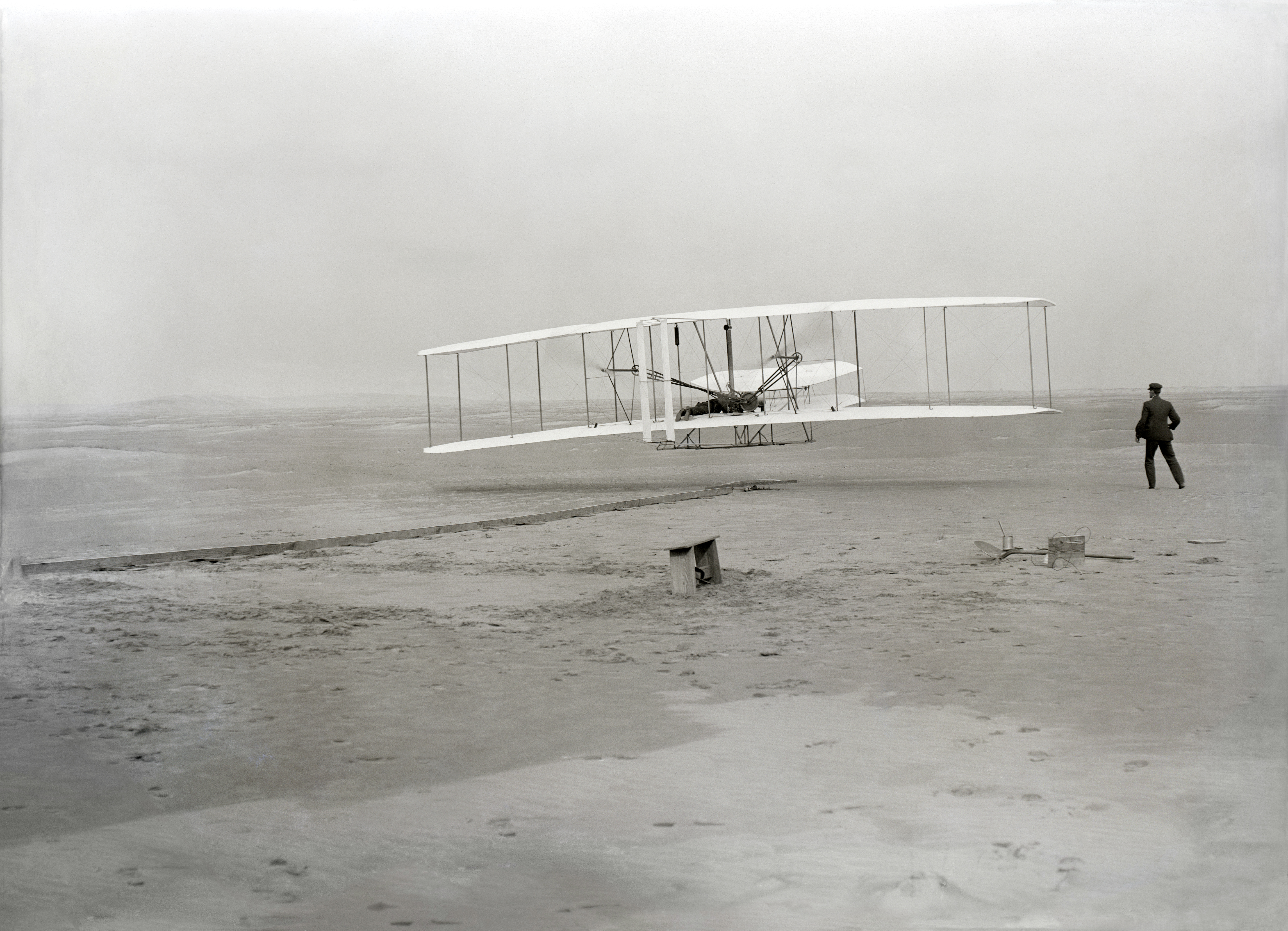 The first powered, controlled, sustained airplane flight in history. Orville Wright, age 32, is at the controls of the machine, lying prone on the lower wing with hips in the cradle which operated the wing-warping mechanism. His brother, Wilbur Wright, age 36, ran alongside to help balance the machine, having just released his hold on the forward upright of the right wing. The starting rail, the wing-rest, a coil box, and other items needed for flight preparation are visible behind the machine. (Orville Wright preset the camera and had John T. Daniels squeeze the rubber bulb, tripping the shutter.) This image was restored by User:Wright Stuf in November, 2018 using GIMP.